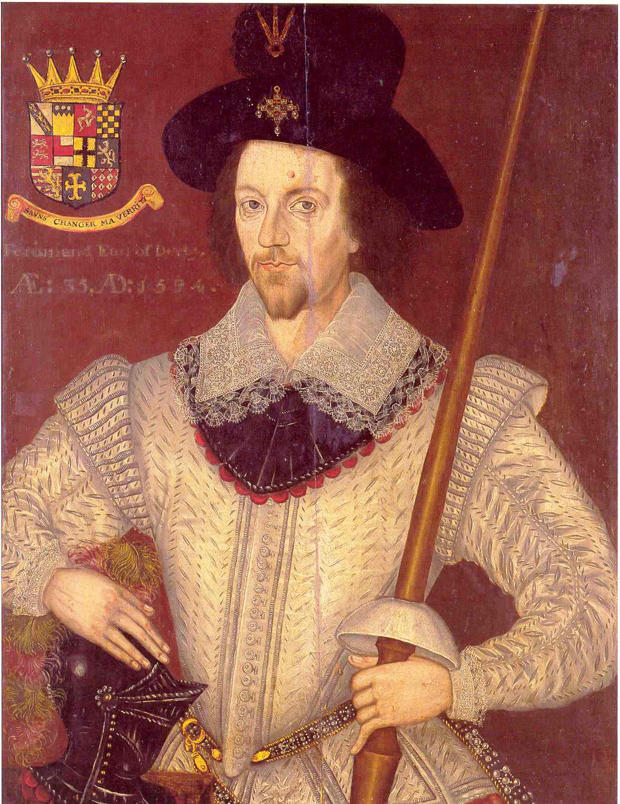 Dated oil portrait of Fernando Stanley, 5th earl of Derby